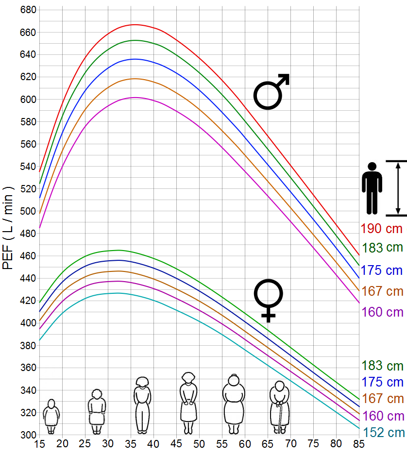 Normal values for (PEF) - EU scale